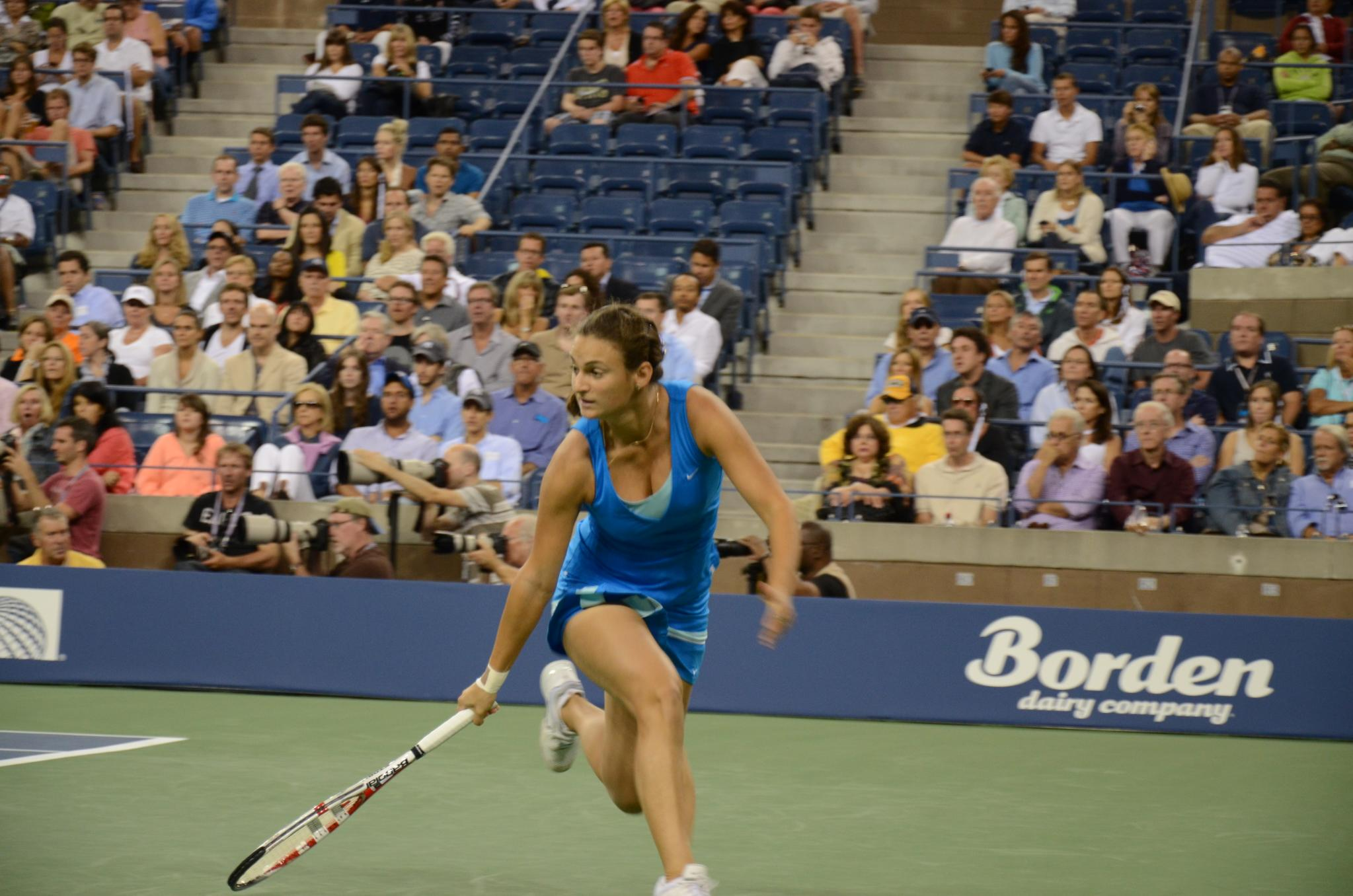 Vesna Dolonc at the US Open 2011, 1st round